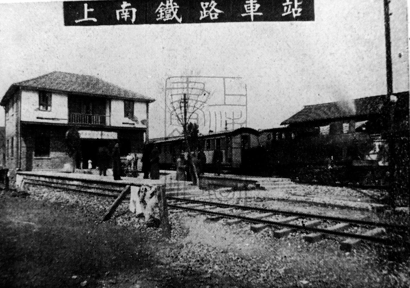 Shangnan Railway Station